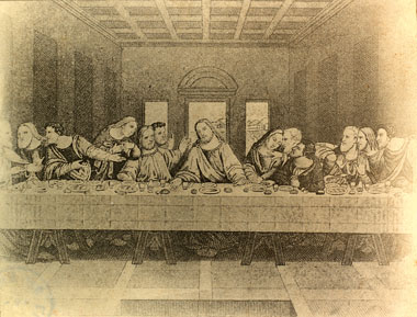 The Last Supper: Puhar's photographic reproduction of a visual motif, paper